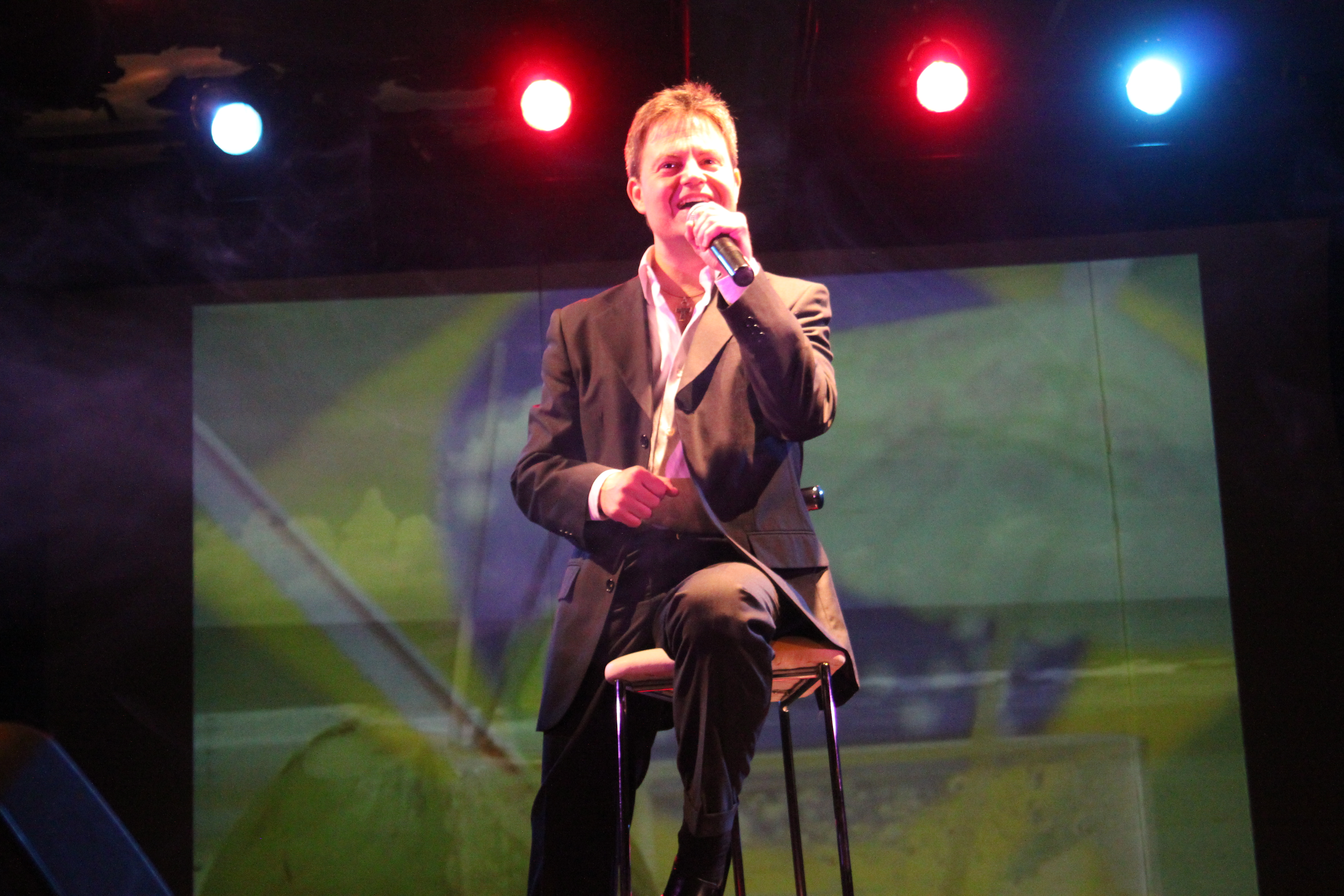 Carlos Morell singing "Garota de Ipanema"